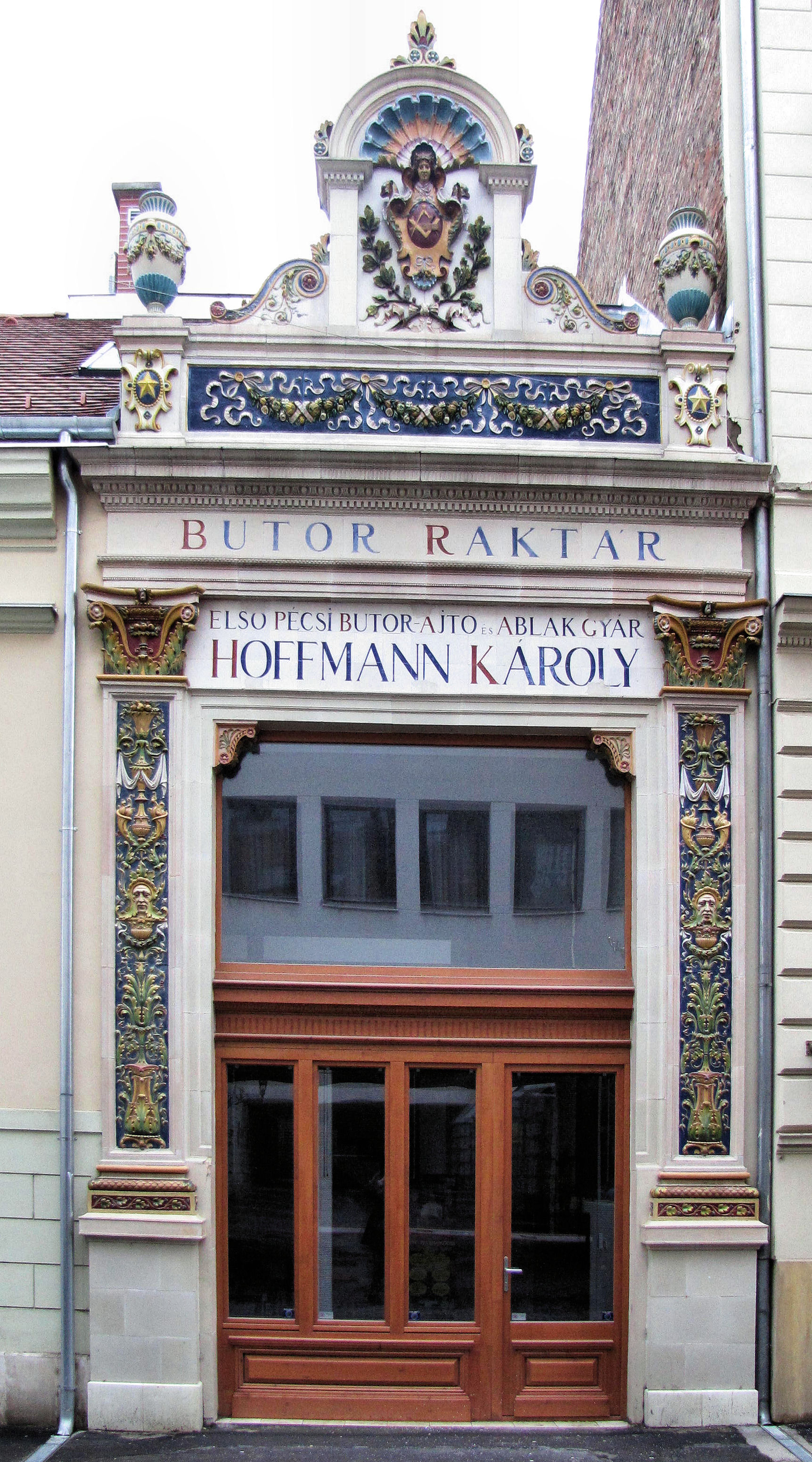 Entrance of the Csukás House in Pécs, Hungary. Richly decorated with Zsolnay majolics.